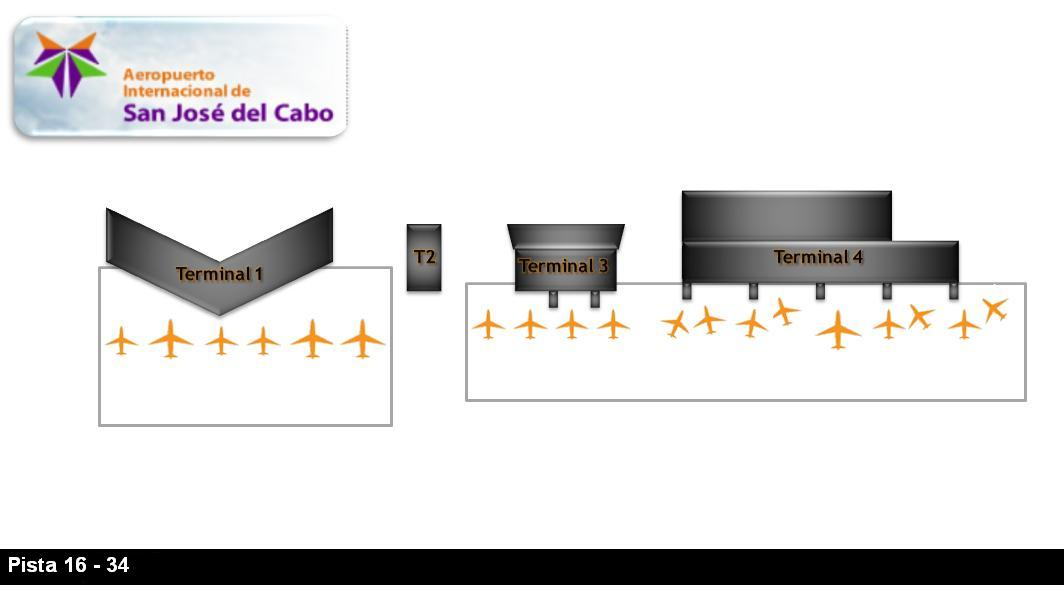 Los Cabos Airport Layout.